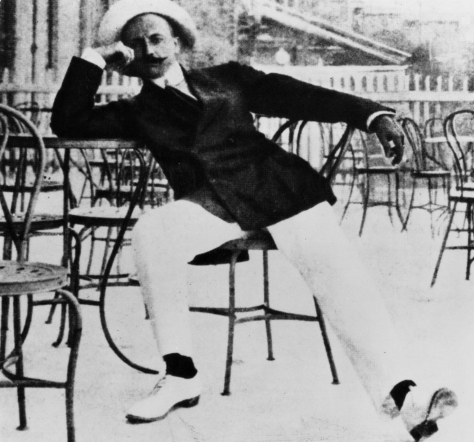 The Italian writer Filippo Tommaso Marinetti (shown in about 1915).